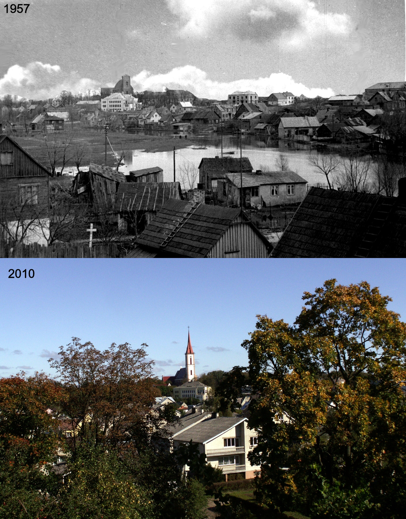 Kretinga 1957-2010, Lithuania